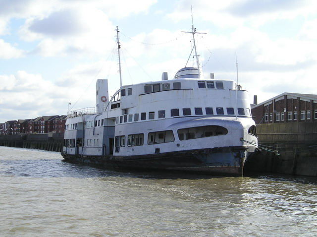 The ex Mersey Ferry the MV Royal Iris dissused on the Thames awaiting what is not known